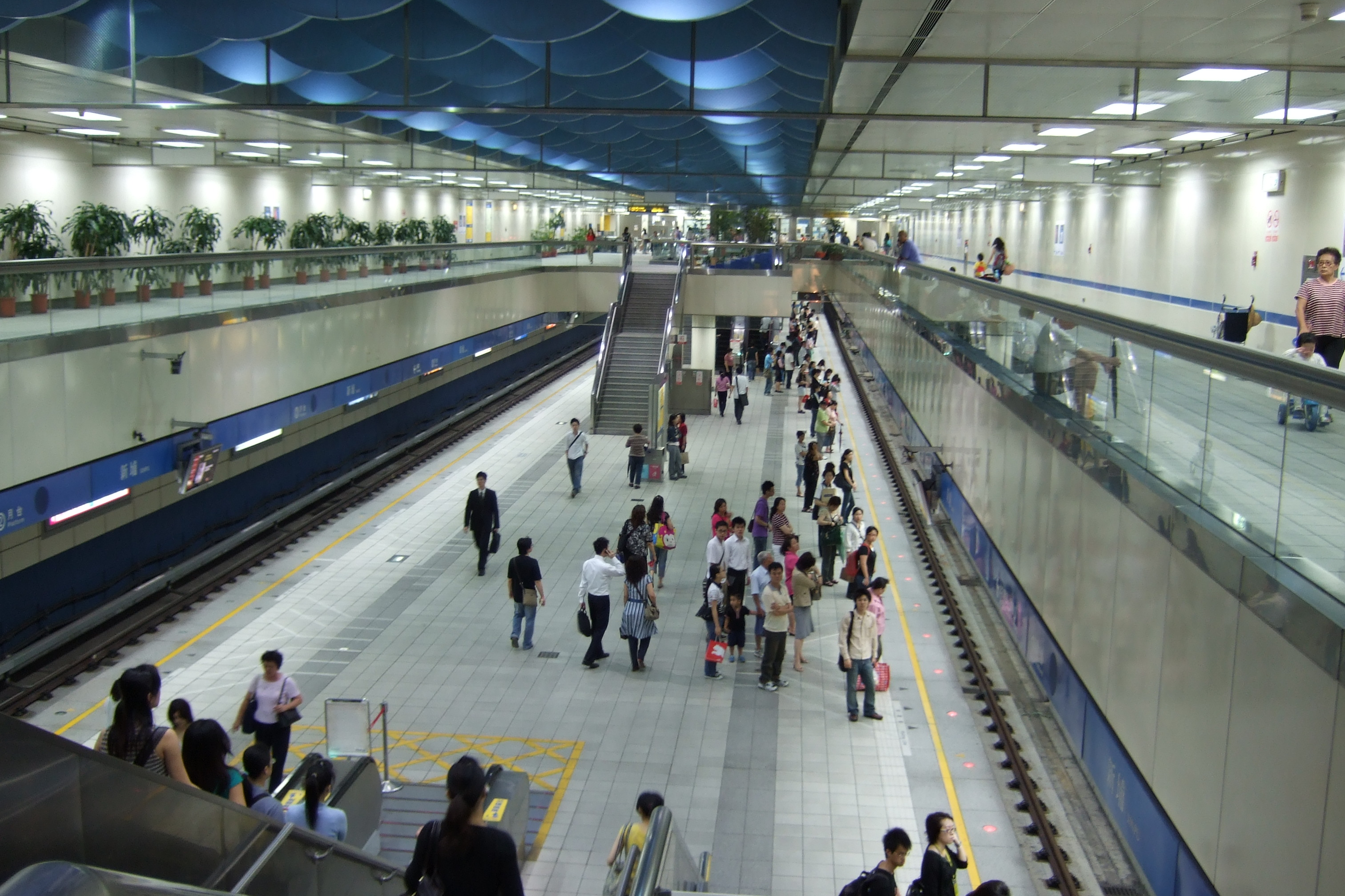 Taipei MRT Xinpu(Sinpu) Station platform.